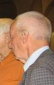 From left:Günther Frei, John Milnor, Yvonne Dold-Samplonius, Albrecht Dold, Zürich 2007 (90th birthday Beno Eckmann)